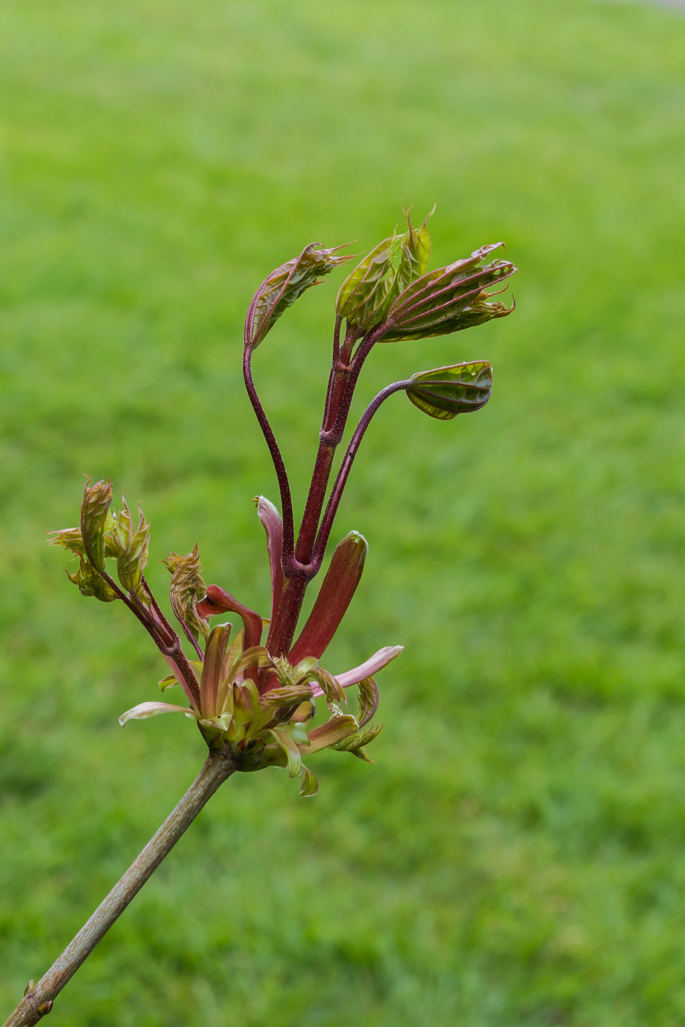 Beautifully emerging leaves of maple (Acer). Location, The Famberhorst in the Netherlands.